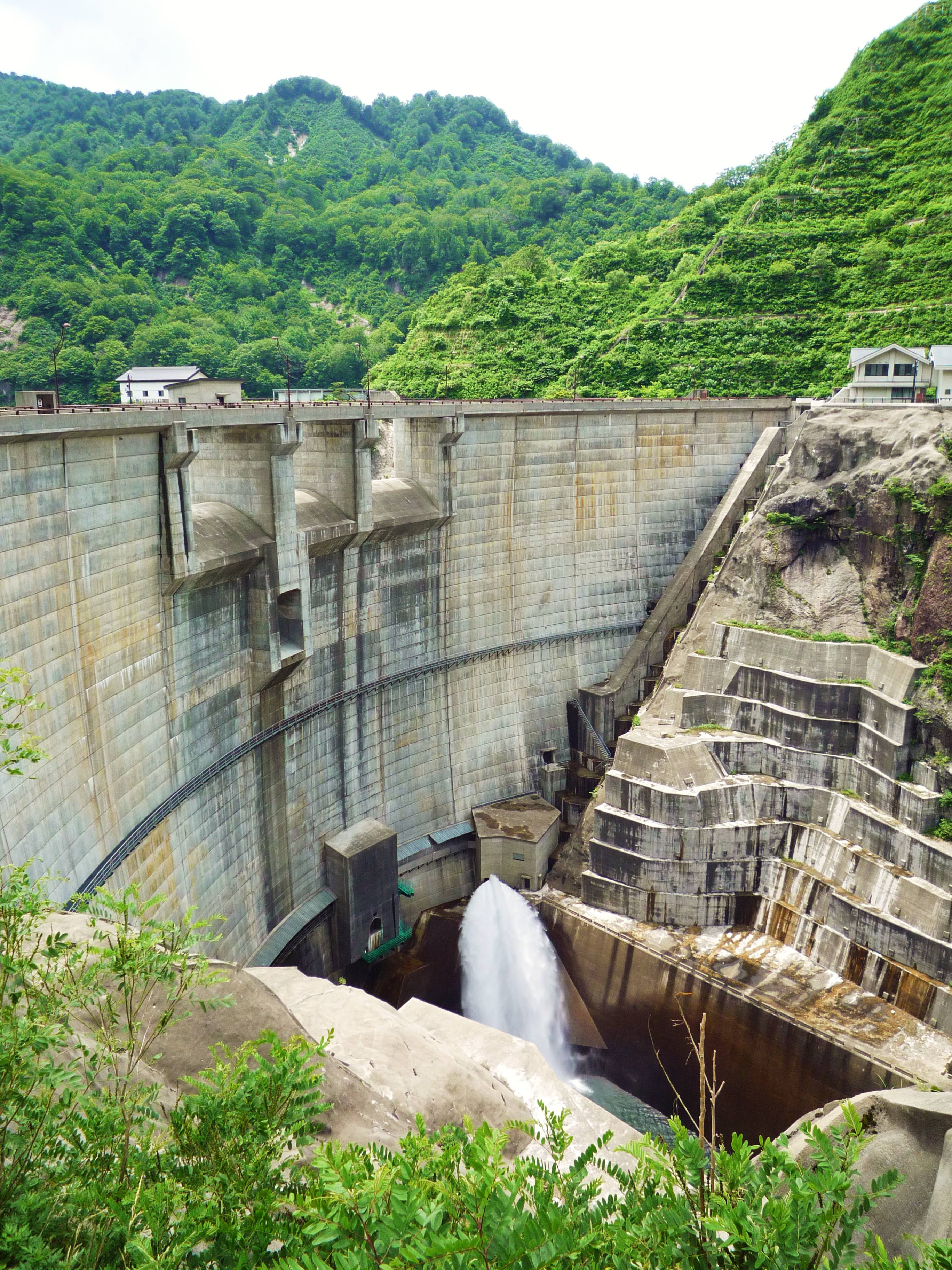 Okumiomote Dam.